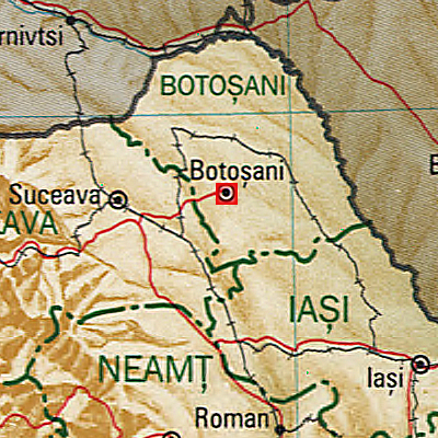 Map of Botoșani Municipality, Romania.